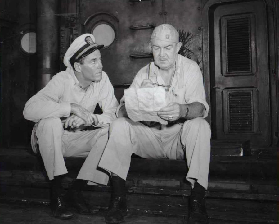 Photo of Henry Fonda as Mister Roberts and Robert Burton as Doc from the Broadway production of Mister Roberts. The item has no copyright markings on it as can be seen in the links above.